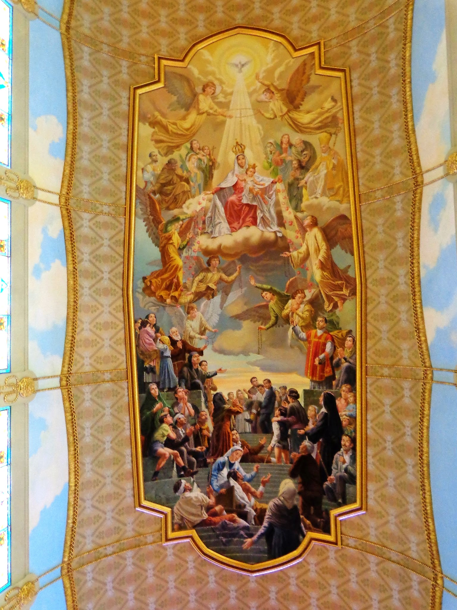 Santuario di Tindari. Affresco della navata centrale.